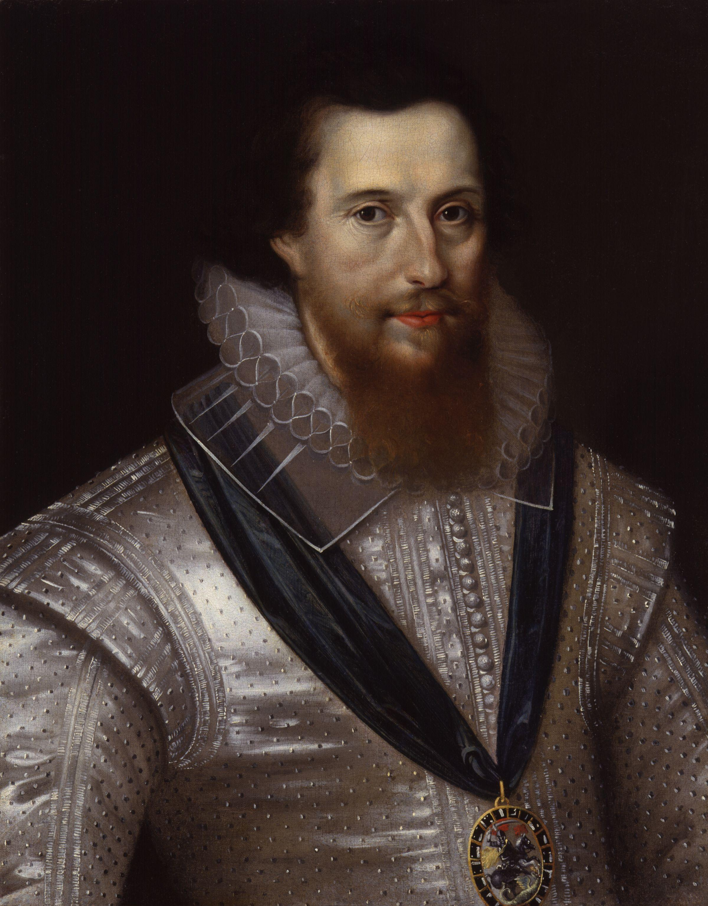 Robert Devereux, 2nd Earl of Essex, by Marcus Gheeraerts the Younger. All images in this batch have a known author, but have manually examined for strong evidence that the author was dead before 1939, such as approximate death dates, birth dates, floruit dates, and publication dates.